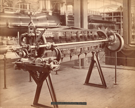 Grant's Calculating Engine at the Centinial Exhibition 1876.